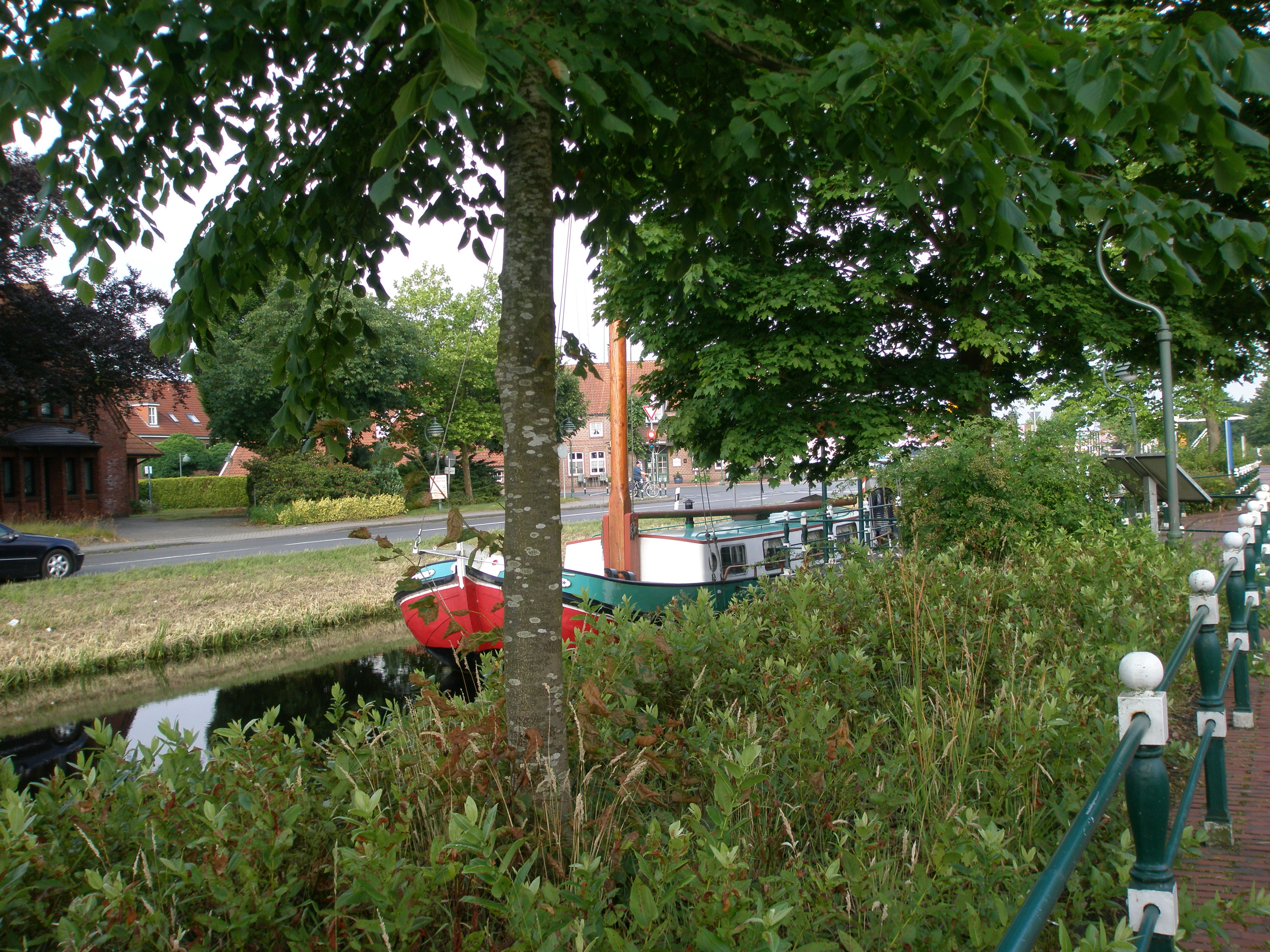 Boat on channel in Ostgrossefehn, Grossefehn, Landkreis Aurich, Niedersachsen, Germany.